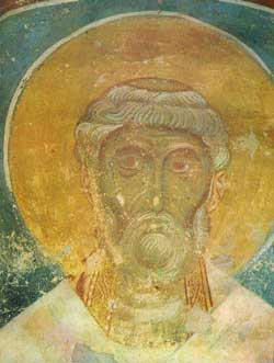 Pope Peter of Alexandria